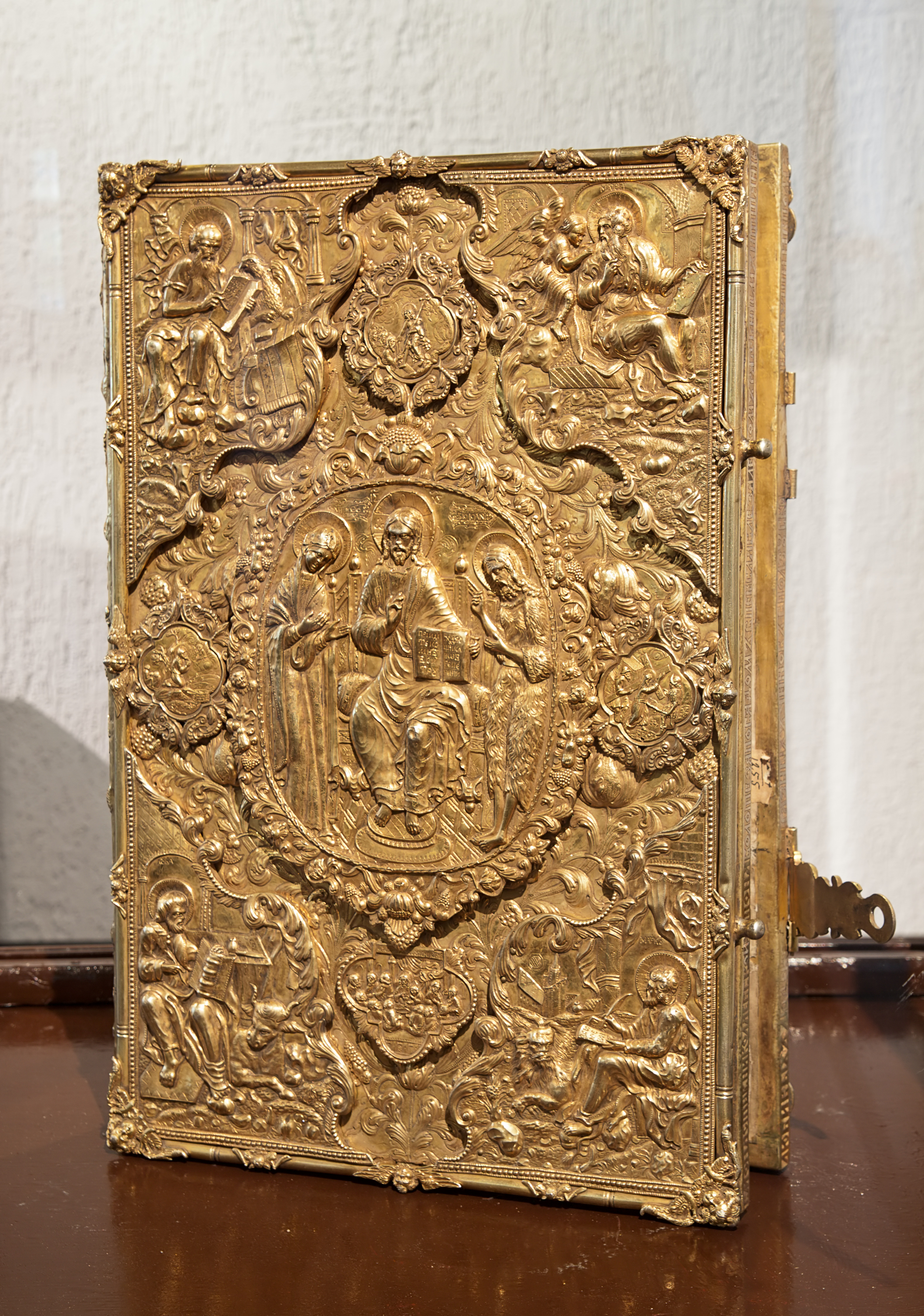 Hardcover of the Gospel. Deesis, evangelists. Moscow, 1701. Silver, stamping, casting, engraving, gilding. Pereslav museum-preserve, Pereslavl-Zalessky, № PZM-1255.